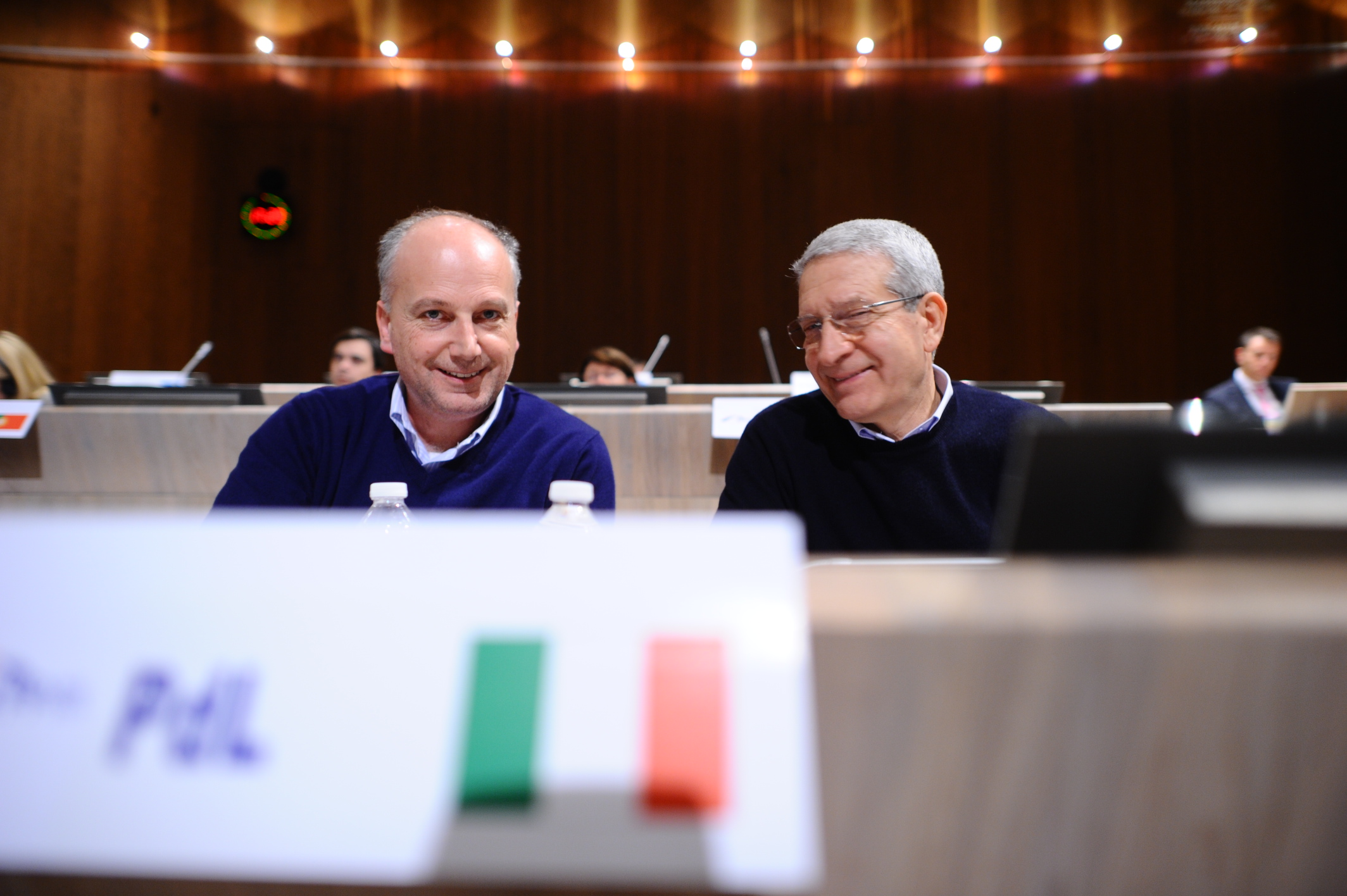 Political Assembly, Marseille